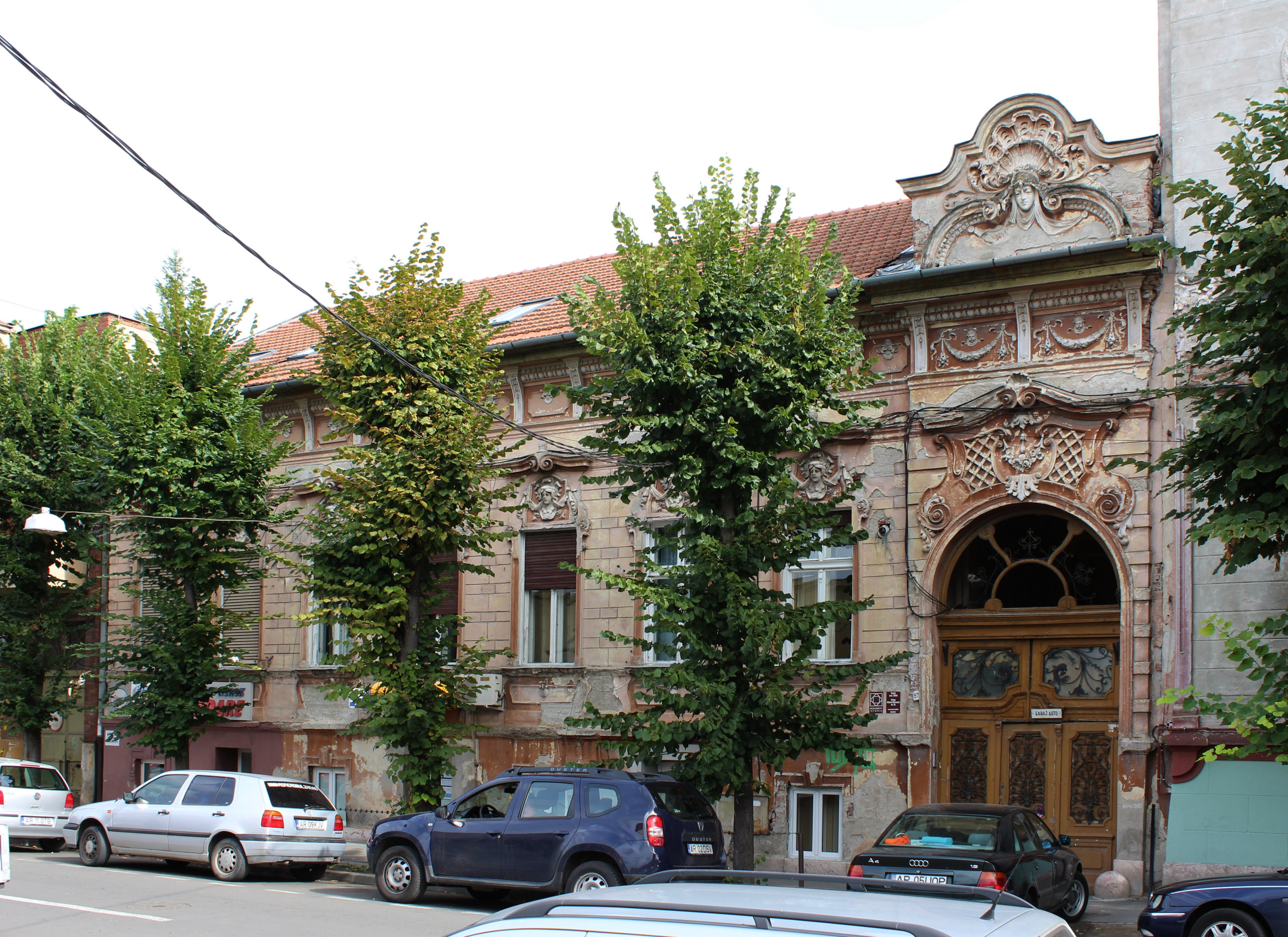 House, Mihai Viteazul Place no 15, Arad, Romania, built 1902.